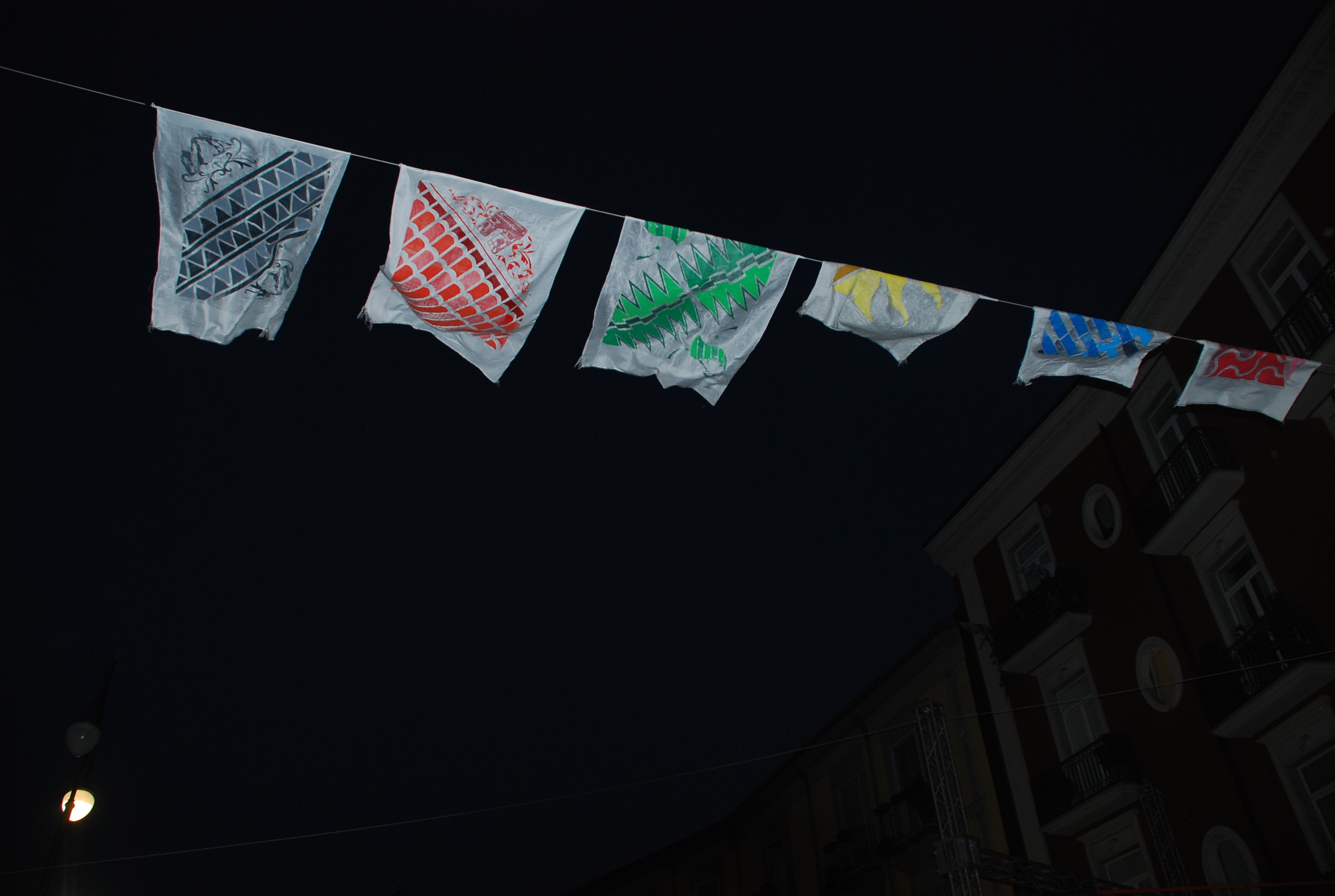 Flags of the quarters of the "Palio della Botte" in Avellino